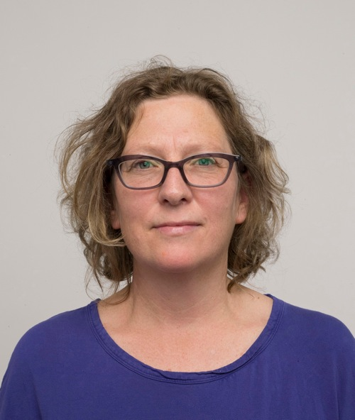 Photo of Bridget Smith (artist)